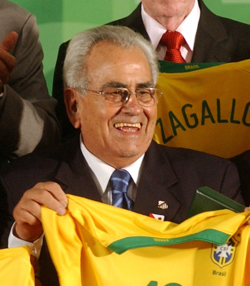 Brazilian football player Zito